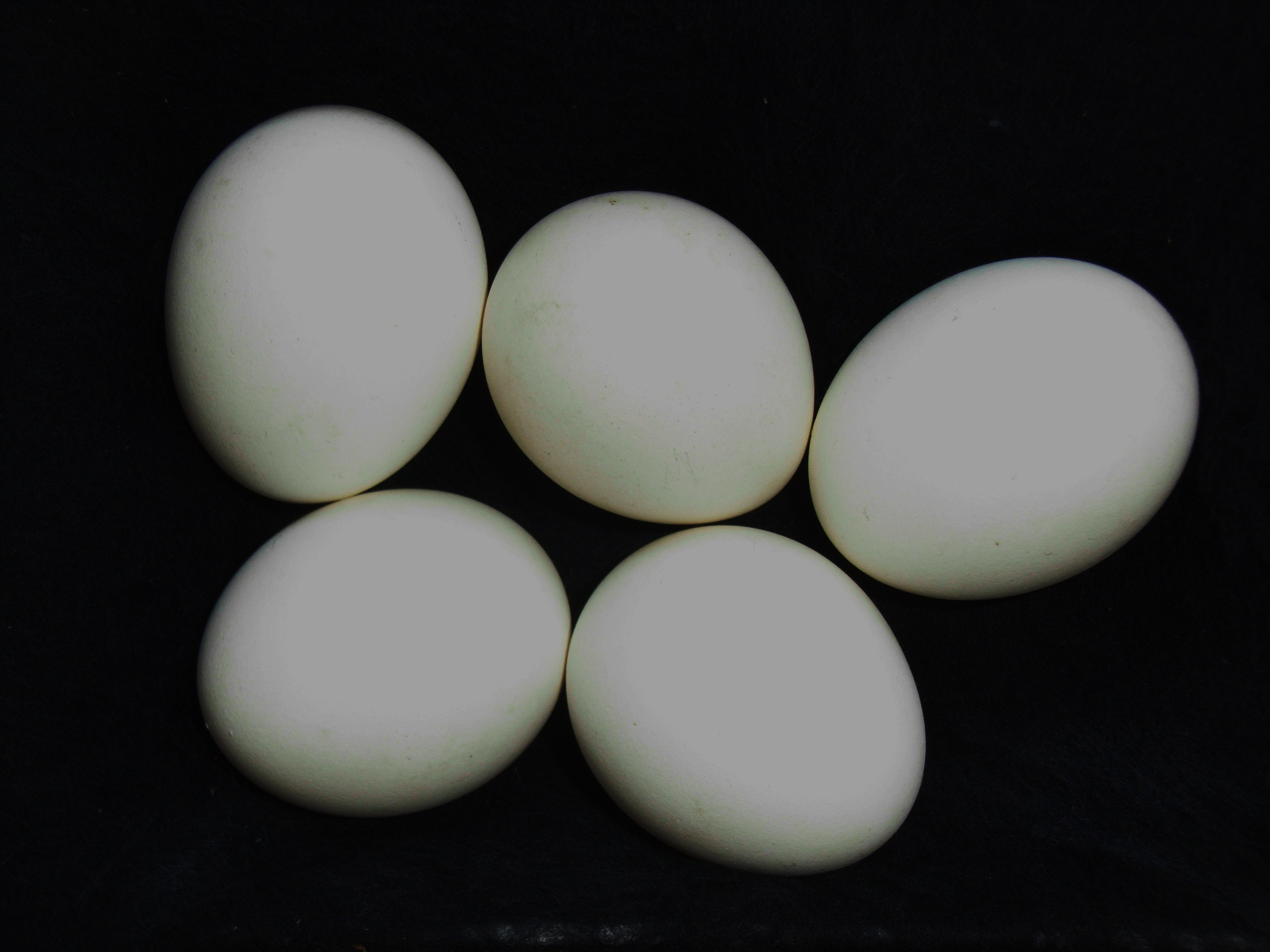 Tyto alba egg clutch